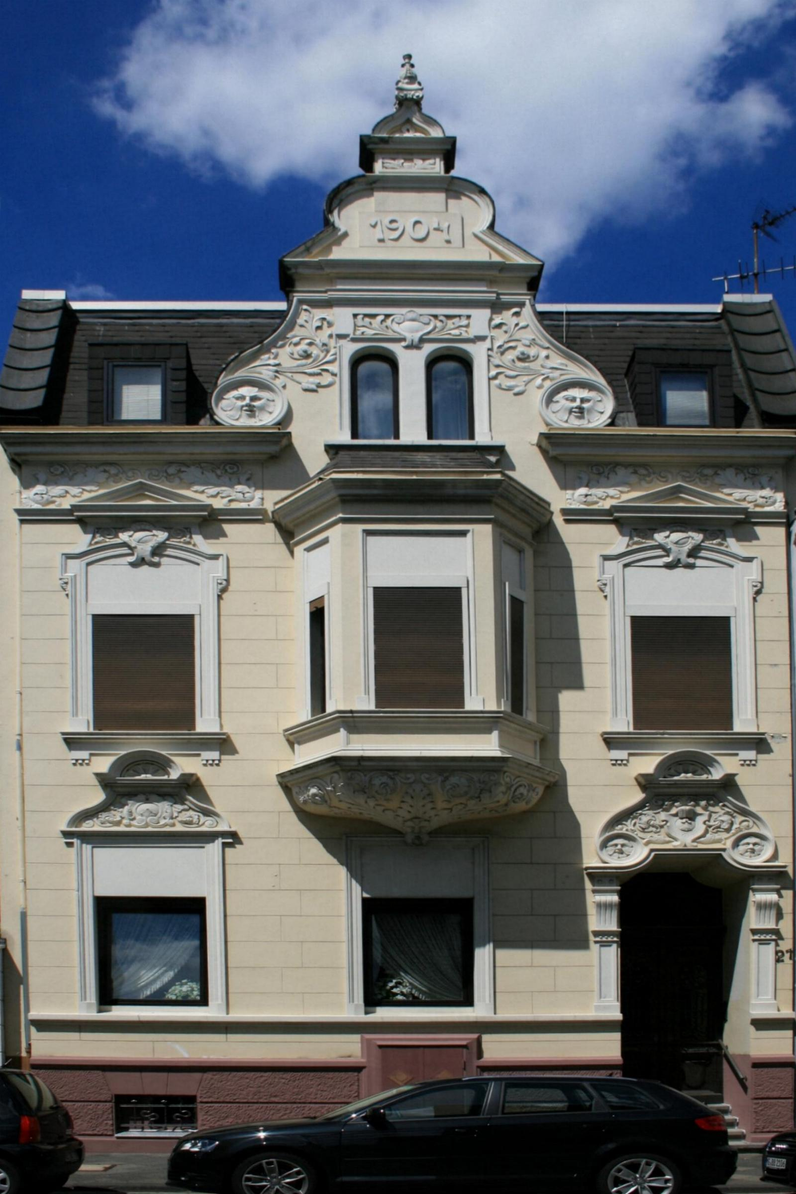 Cultural heritage monument No. G 014 in Mönchengladbach